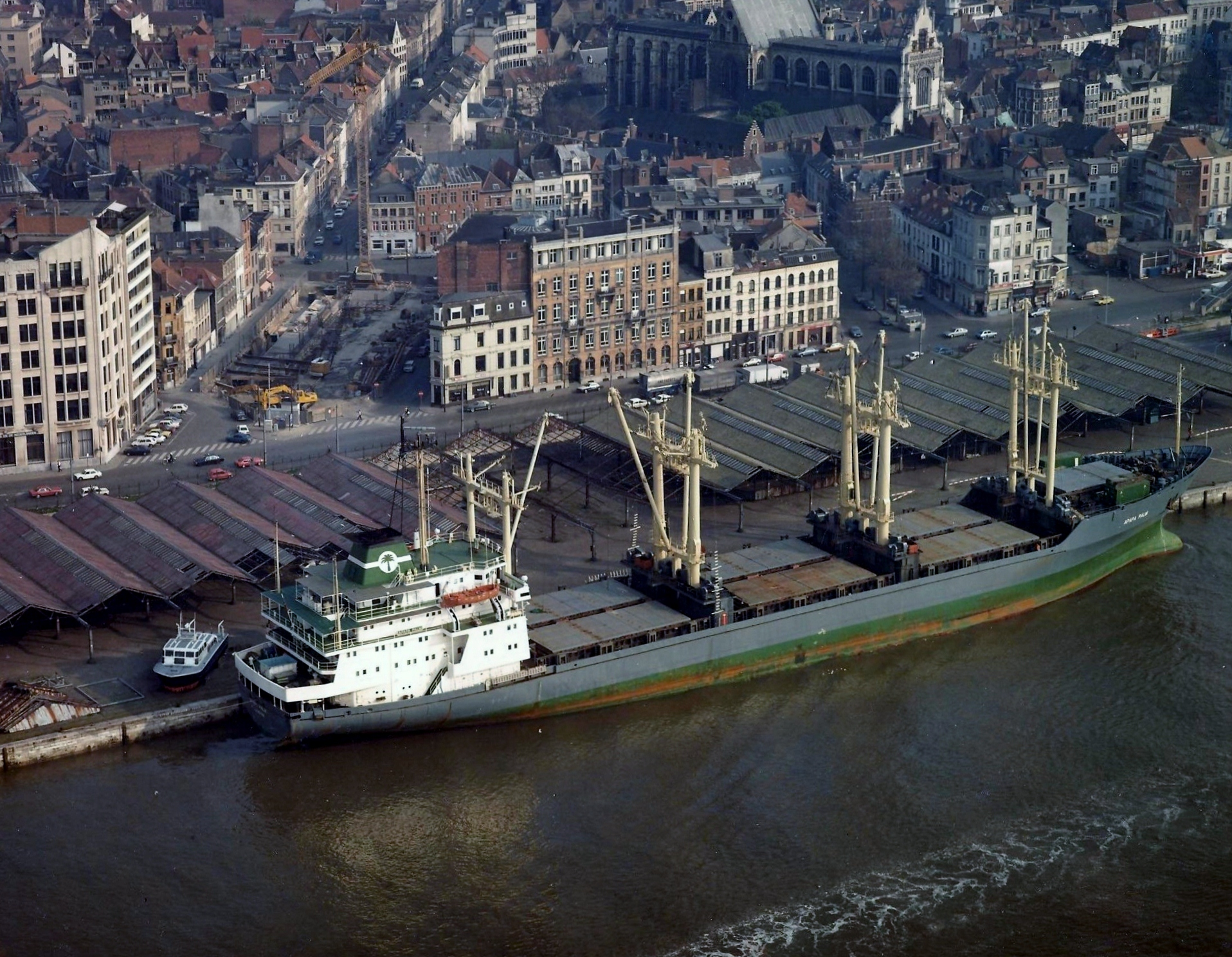 MV Apapa Palm laid up in Antwerp, Belgium May 1982